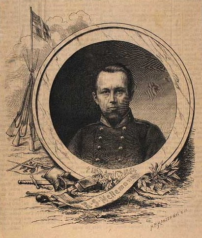 Rasmus Schmidt Nellemann (1830-1864), Danish corporal